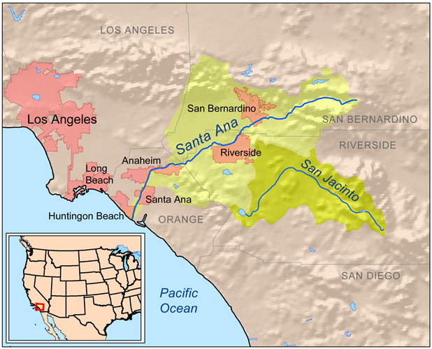 Map showing the Santa Ana and San Jacinto drainage basins. Southern California.